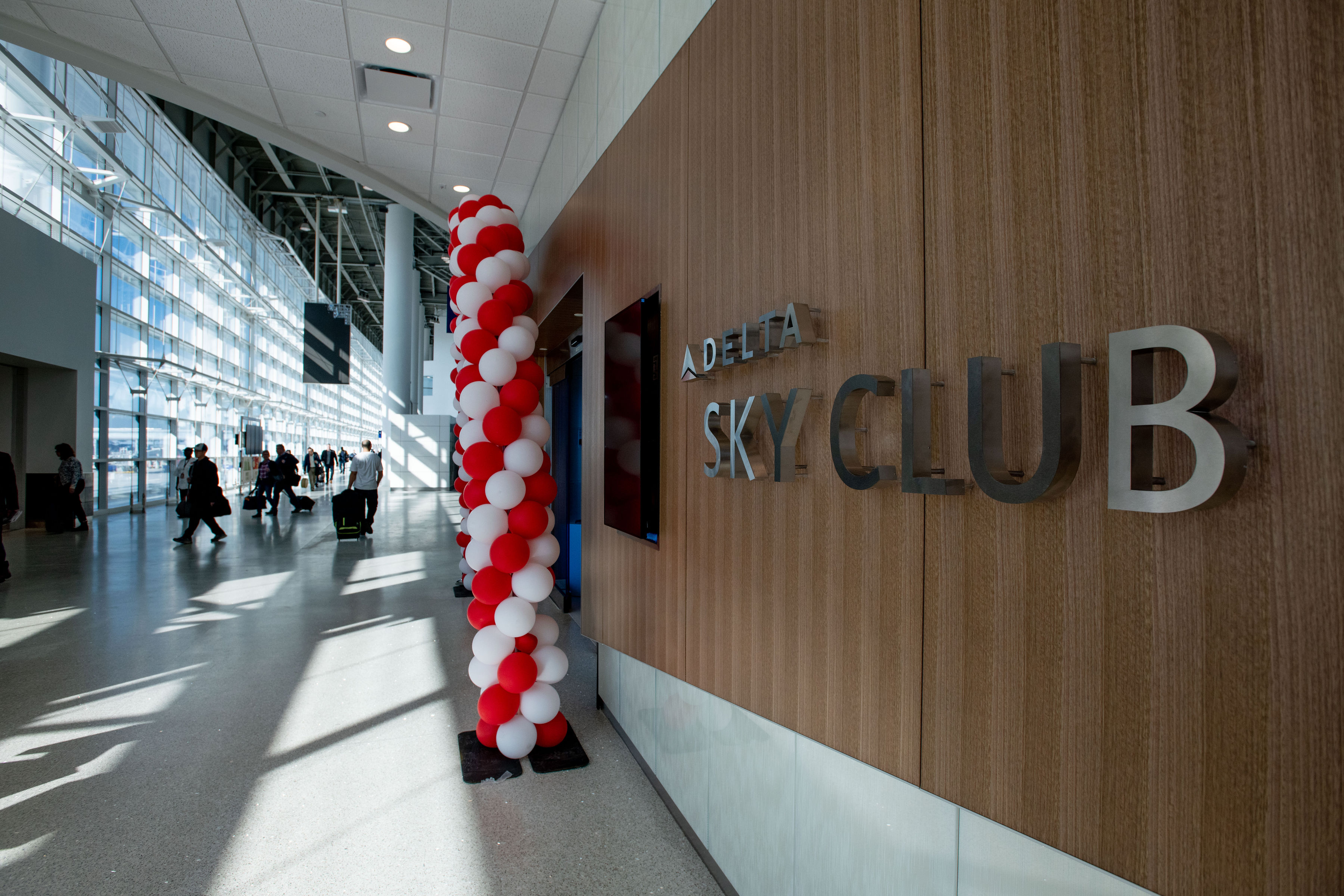 Photos from the grand opening of the SkyClub at the Louis Armstrong International Airport in New Orleans, La., on Wednesday, Nov. 6, 2019. (Chris Rank for Rank Studios)